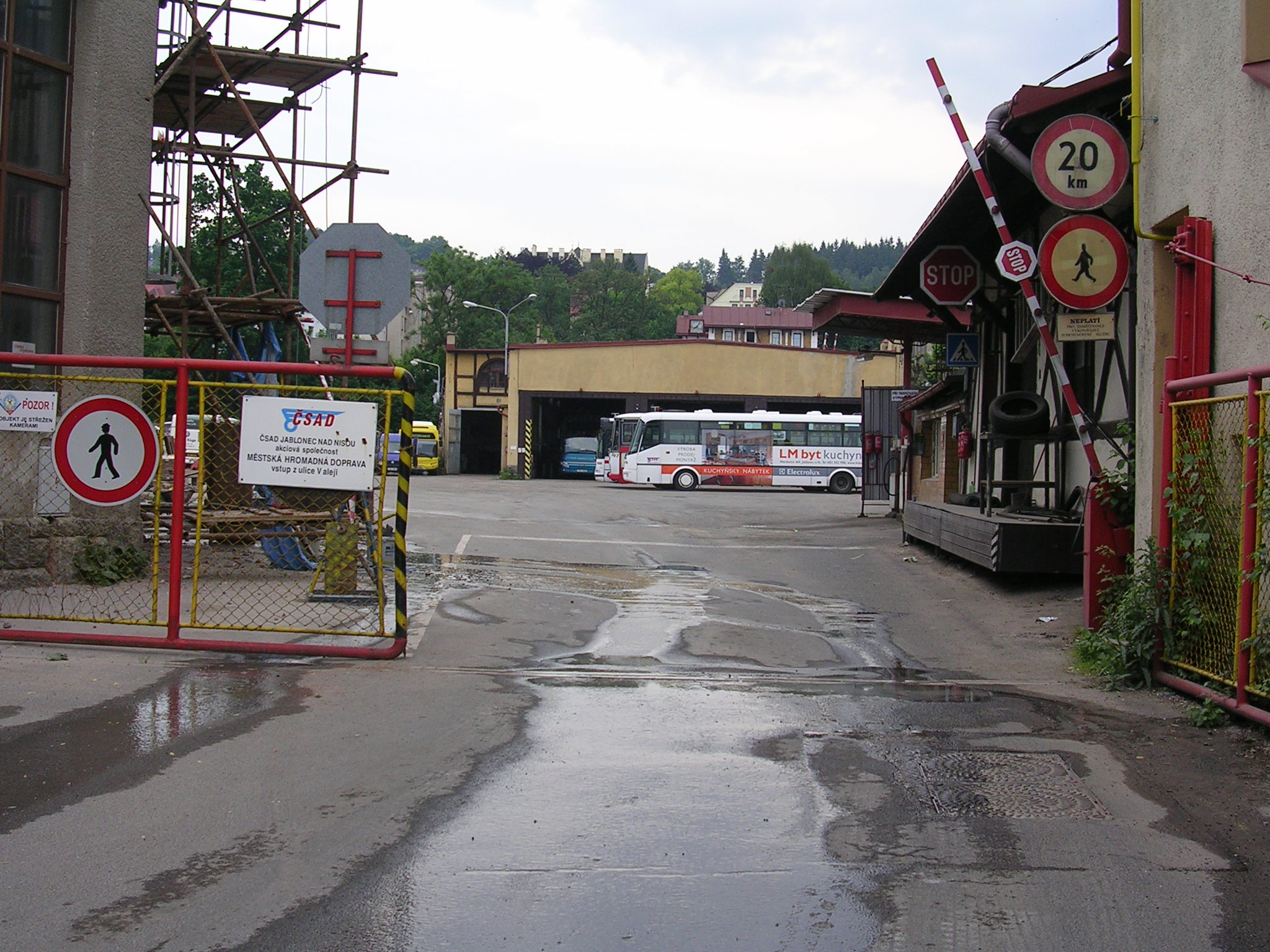 Jablonec nad Nisou. The Czech Republic. A bus depot.